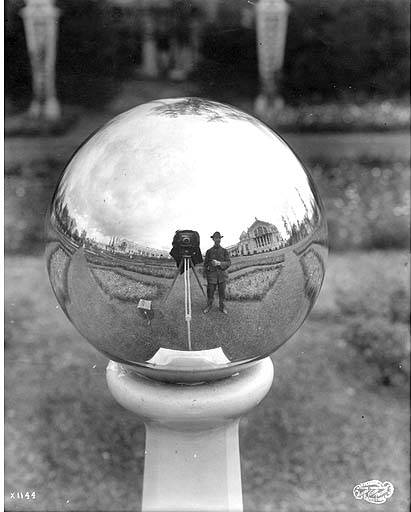 Frank Nowell and his view camera viewed in a spherical mirror “(a gazing ball) placed in the gardens in Rainier Vista. Subjects (LCSH): Nowell, Frank H., 1864-1950--Self-portraits; Alaska-Yukon-Pacific Exposition (1909 : Seattle, Wash.); Exhibitions--Washington (State)--Seattle